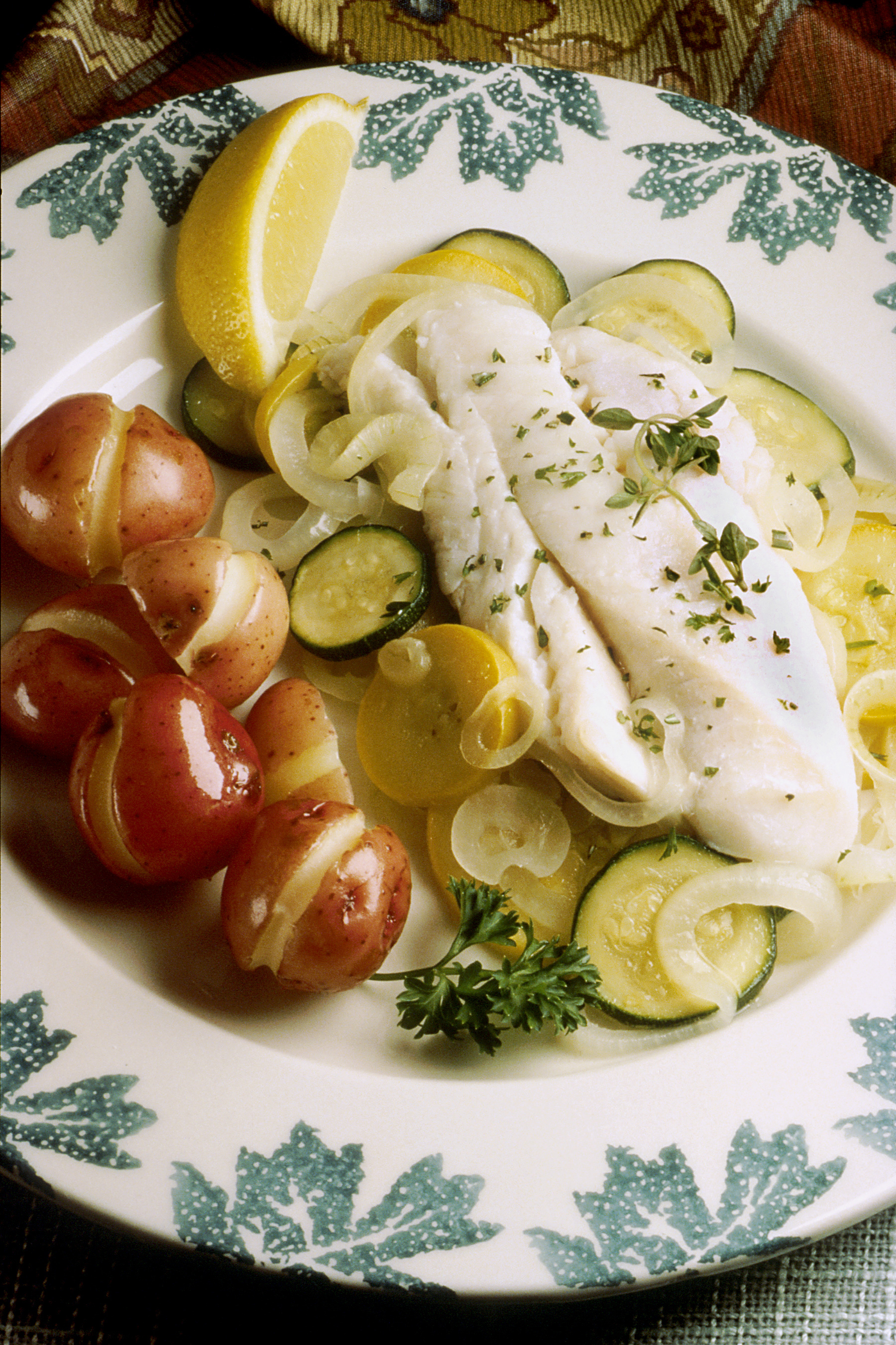 fish baked with vegetables and herbs